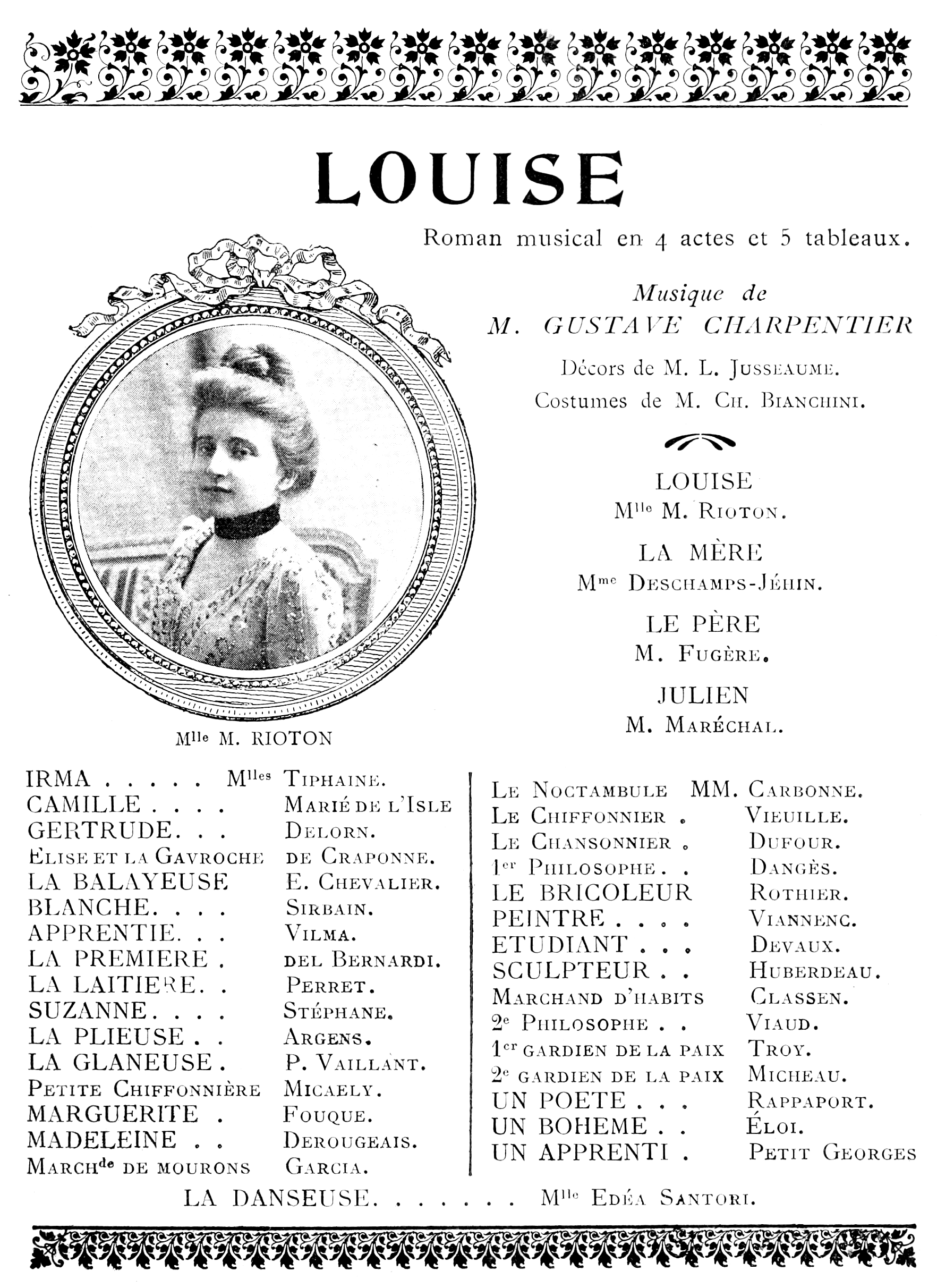 Gustave Charpentier - Louise - Cast list